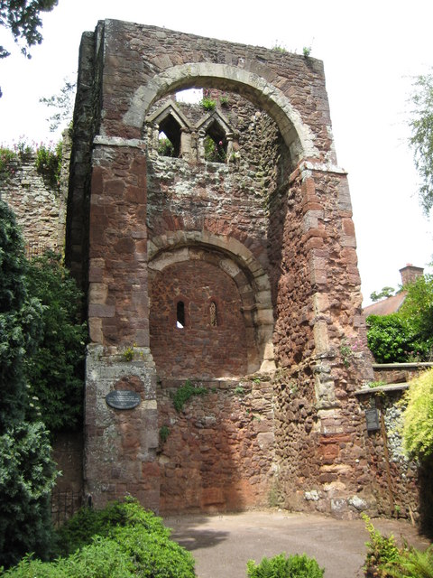 Rougemont Castle, Exeter This part of the remains of Rougemont Castle in Exeter is thought to date from the late 11th century.